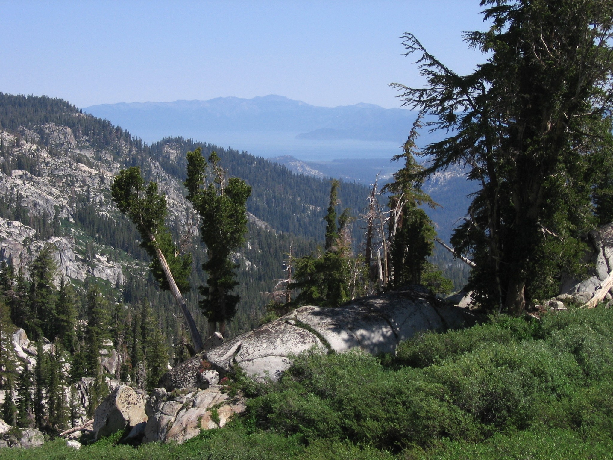 Lake Tahoe from the Tahoe Rim Trail, near Showers Lake. I took this photo myself on July 14, 2005.